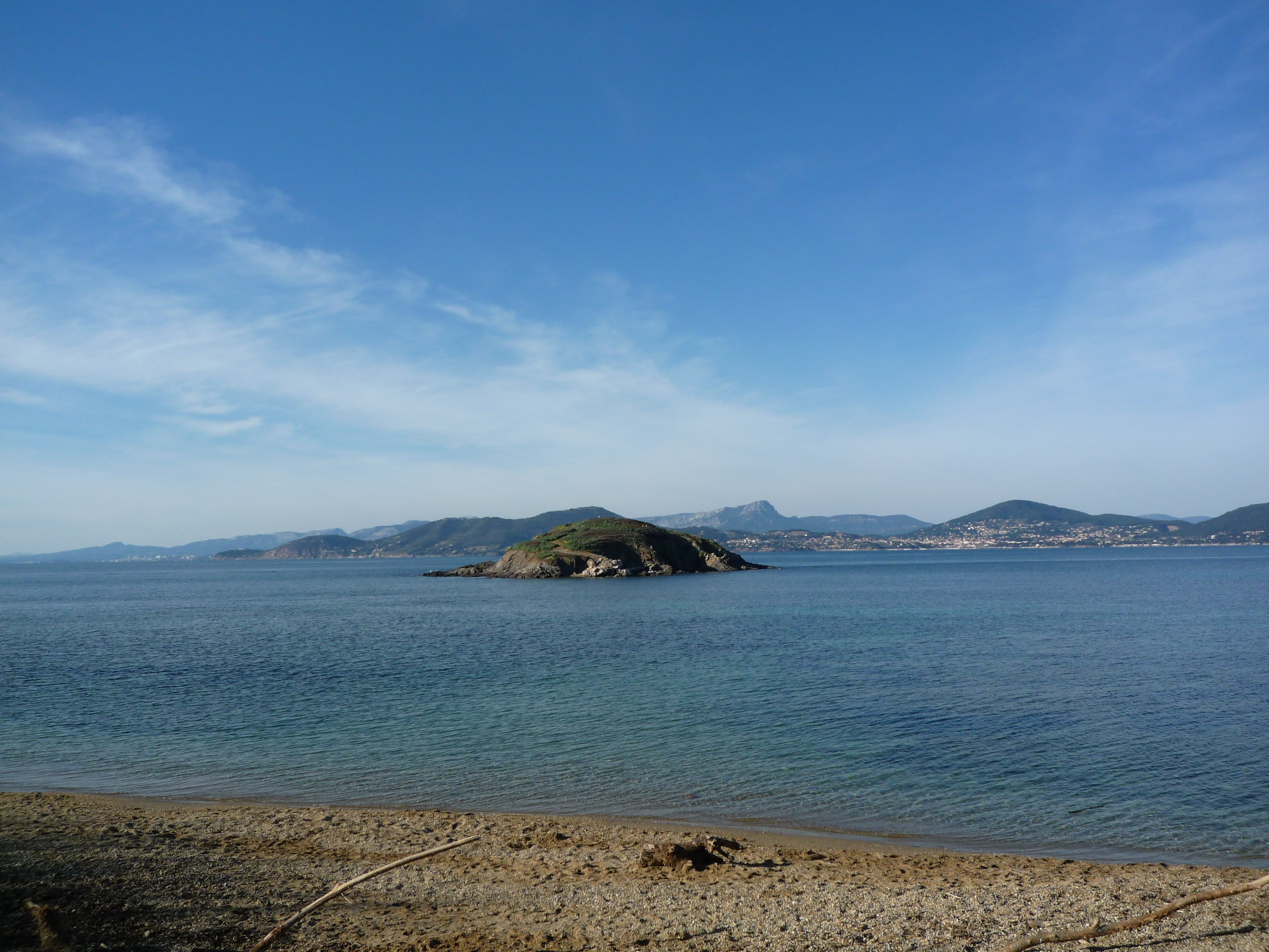 Île de la Redonne